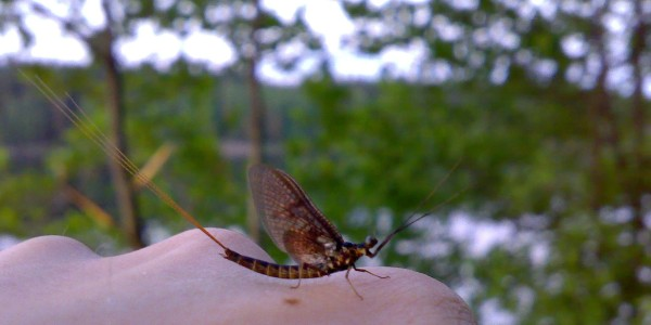 E.Vulgata Male